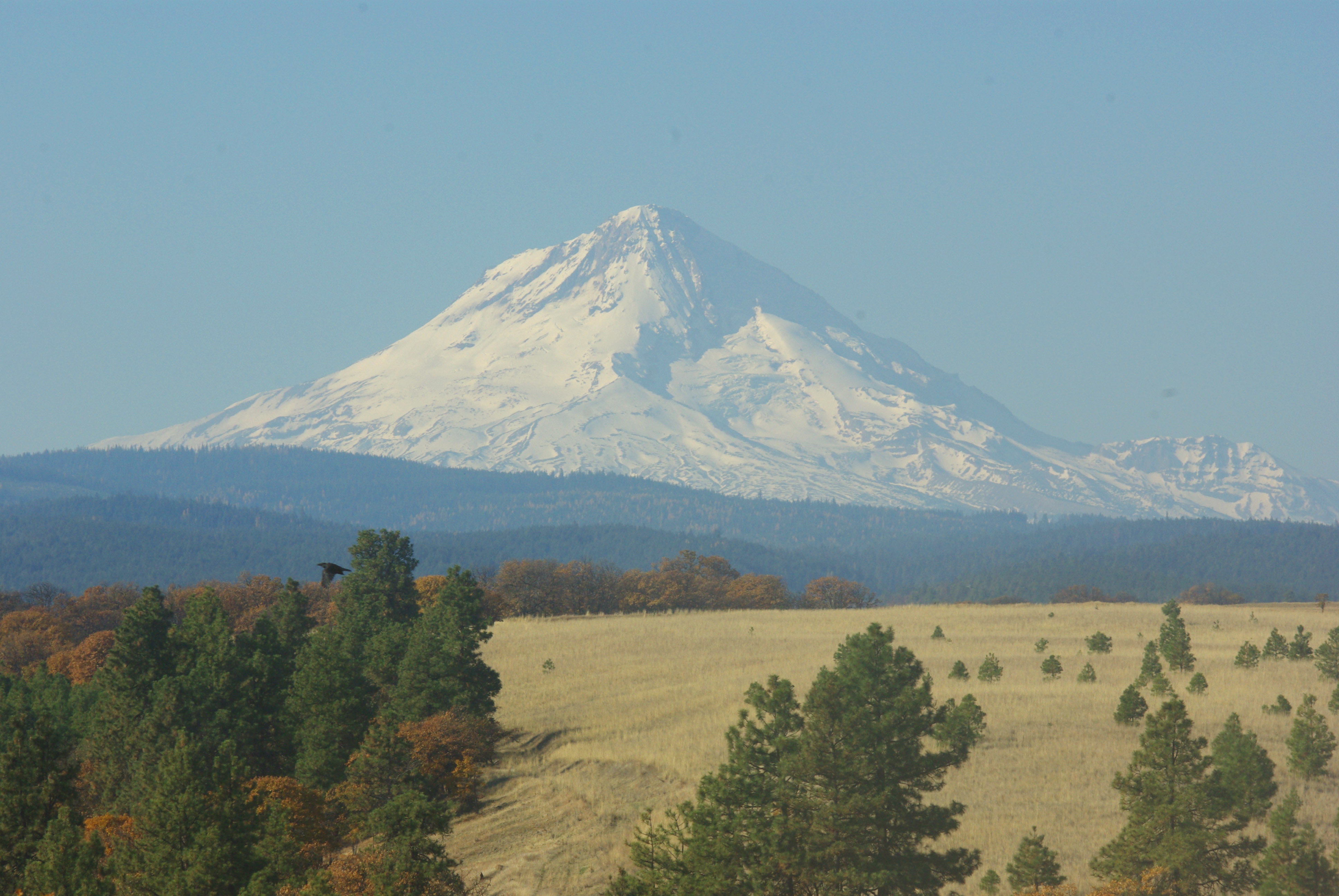 Late October view of Mt. Hood from Pleasant Ridge above Pine Hollow